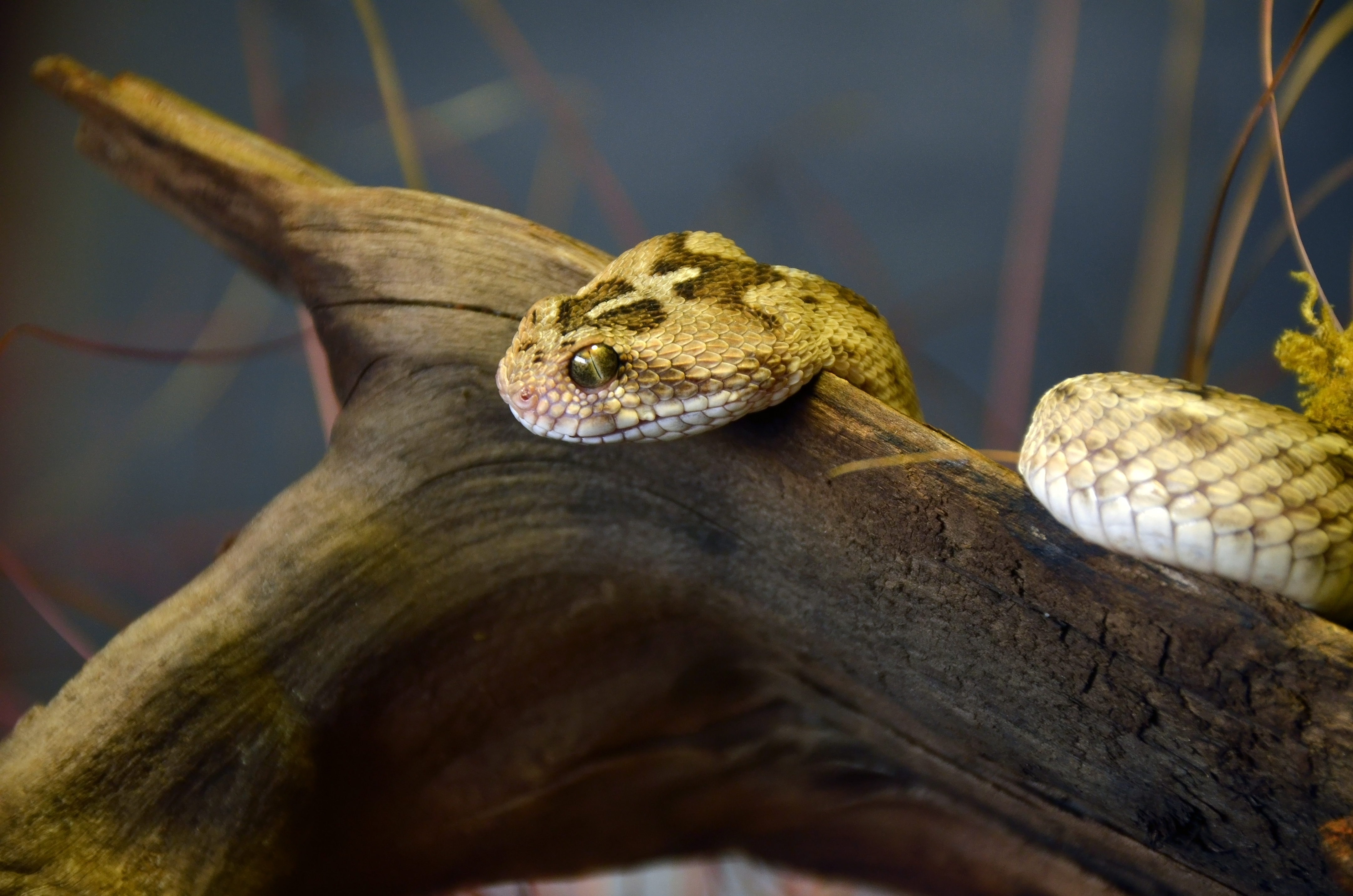 Saw-scaled viper ( Echis carinatus ). Exhibition organized by Reptiles du Monde in Palexpo, Geneva, from the 27th of September to the 2d of November 2014.